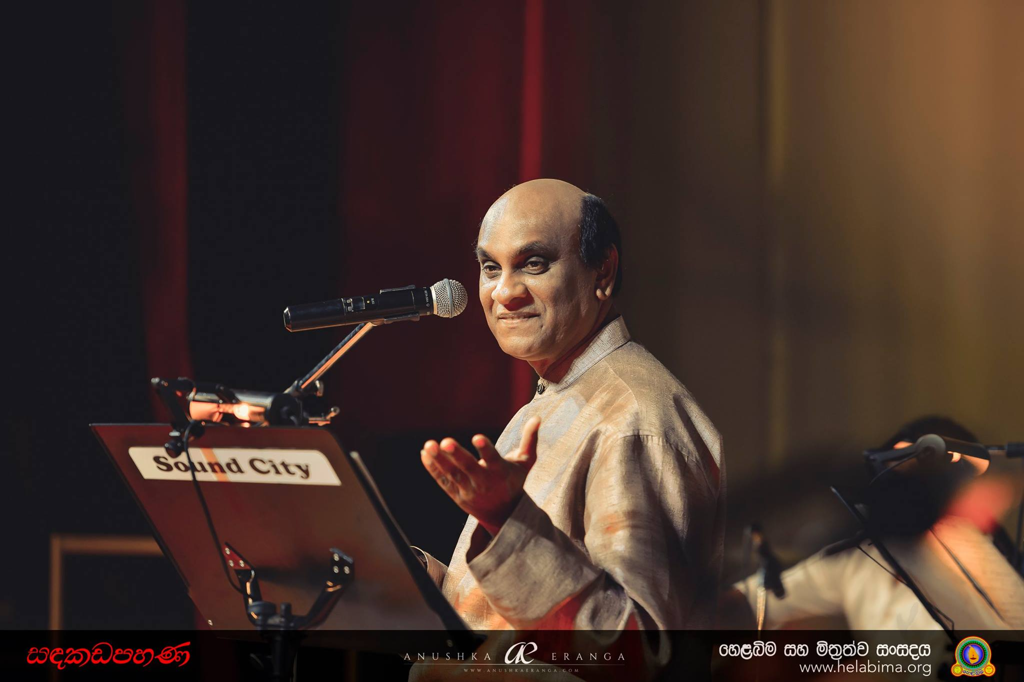 Master Sunil Edirisinghe Performing in Dubai Collage, UAE.